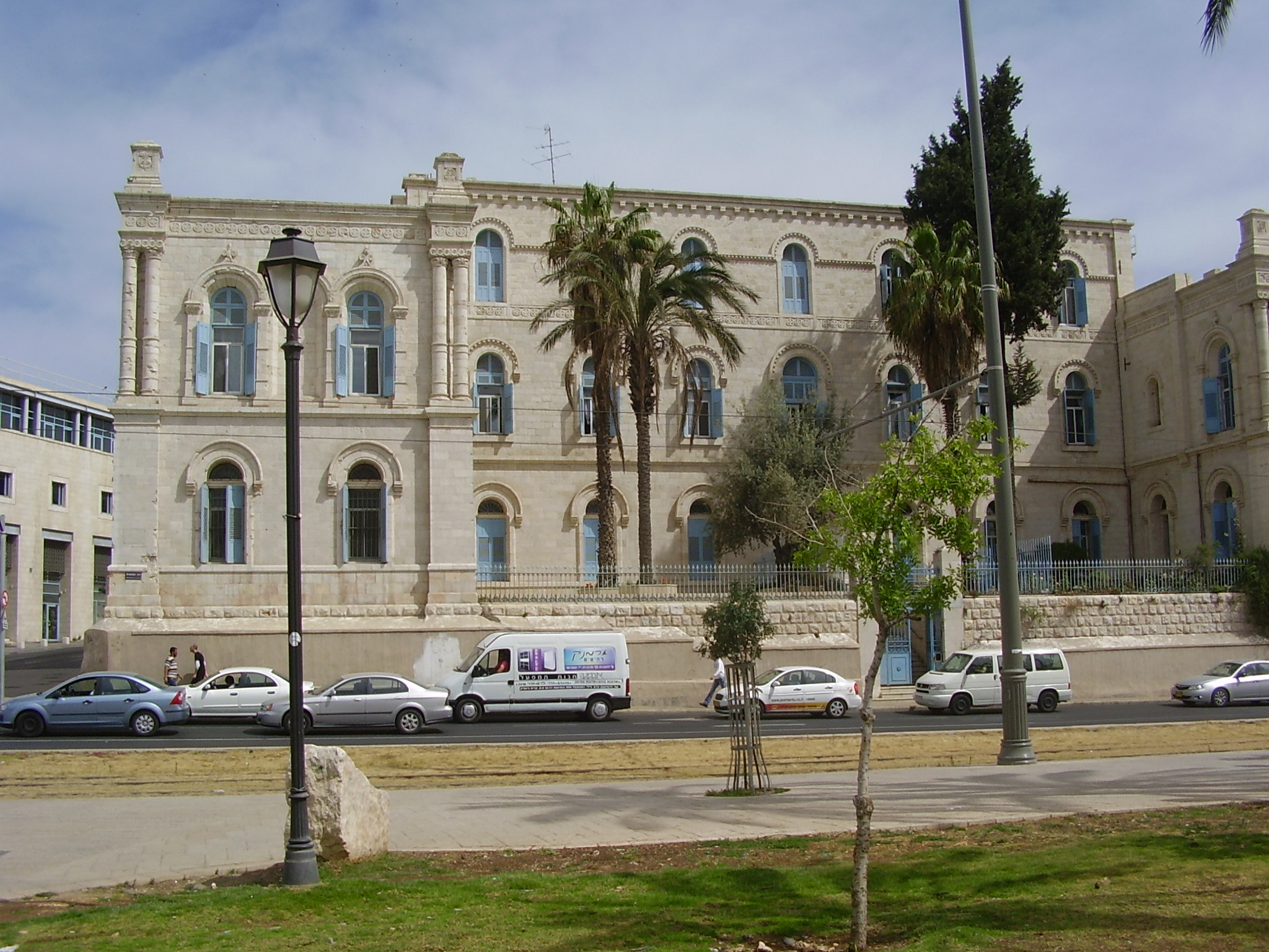 French Hospital in Jerusalem